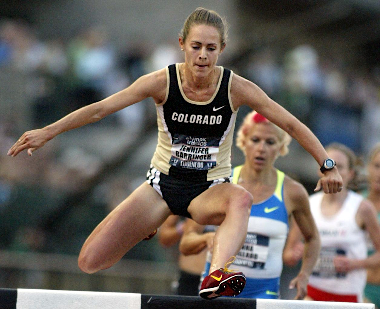 Jennifer Barringer in the 2008 U.S. Olympic Trials